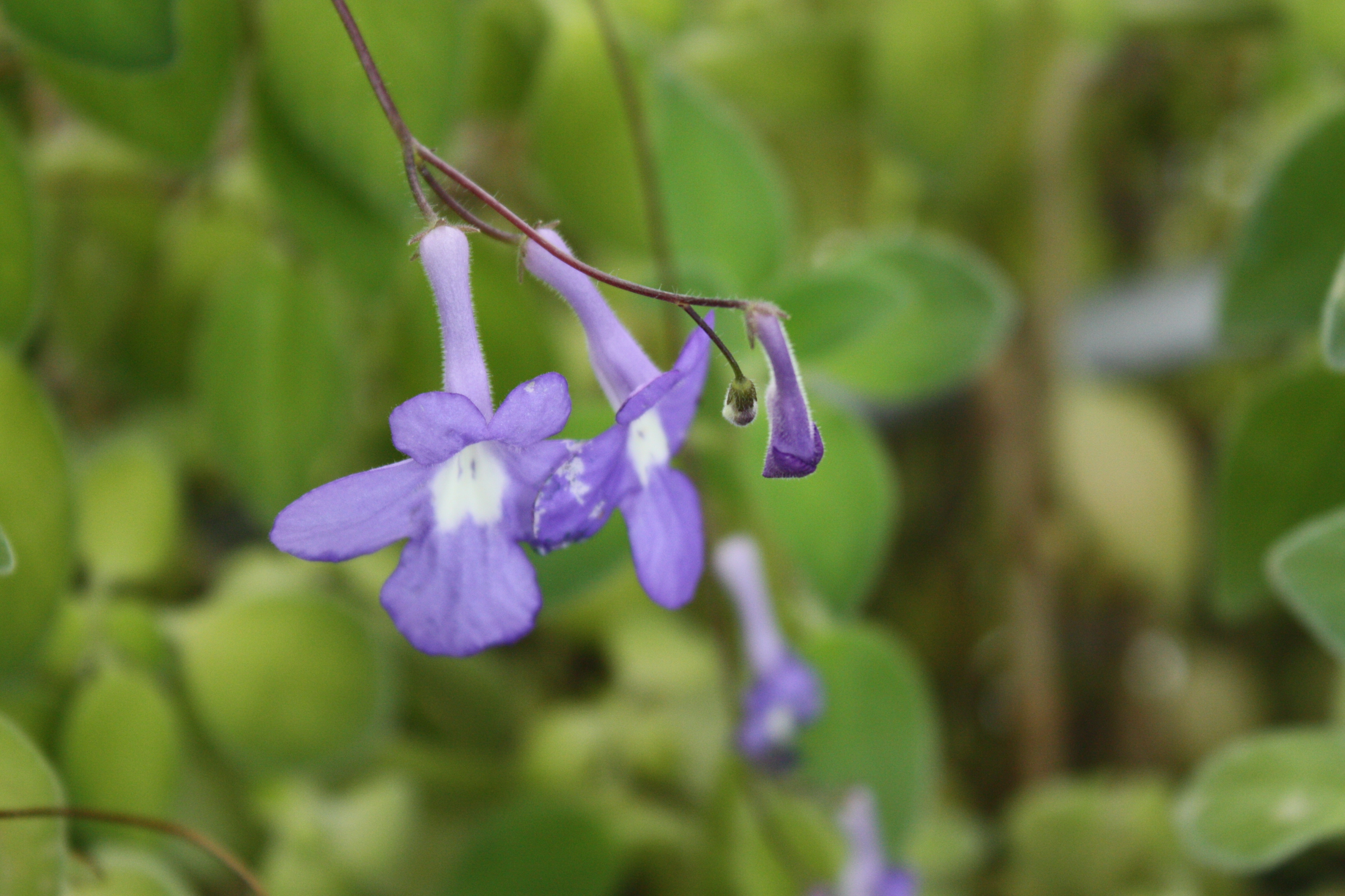 False African-violet (Streptocarpus saxorum) in the glass-house of Botanical garden of Tartu University, Estonia